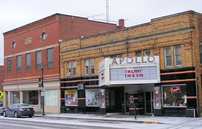 Oberlin-Apollo Theatre (OHPTC), 2008